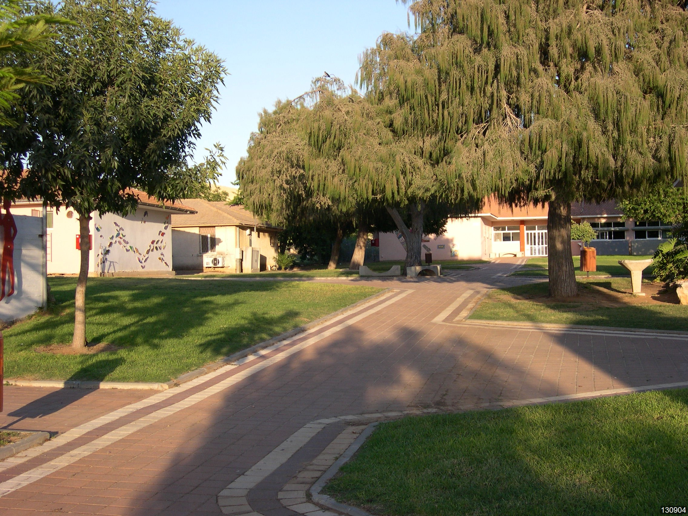 Maayan Shahar school, Hefer Valley, Israel.